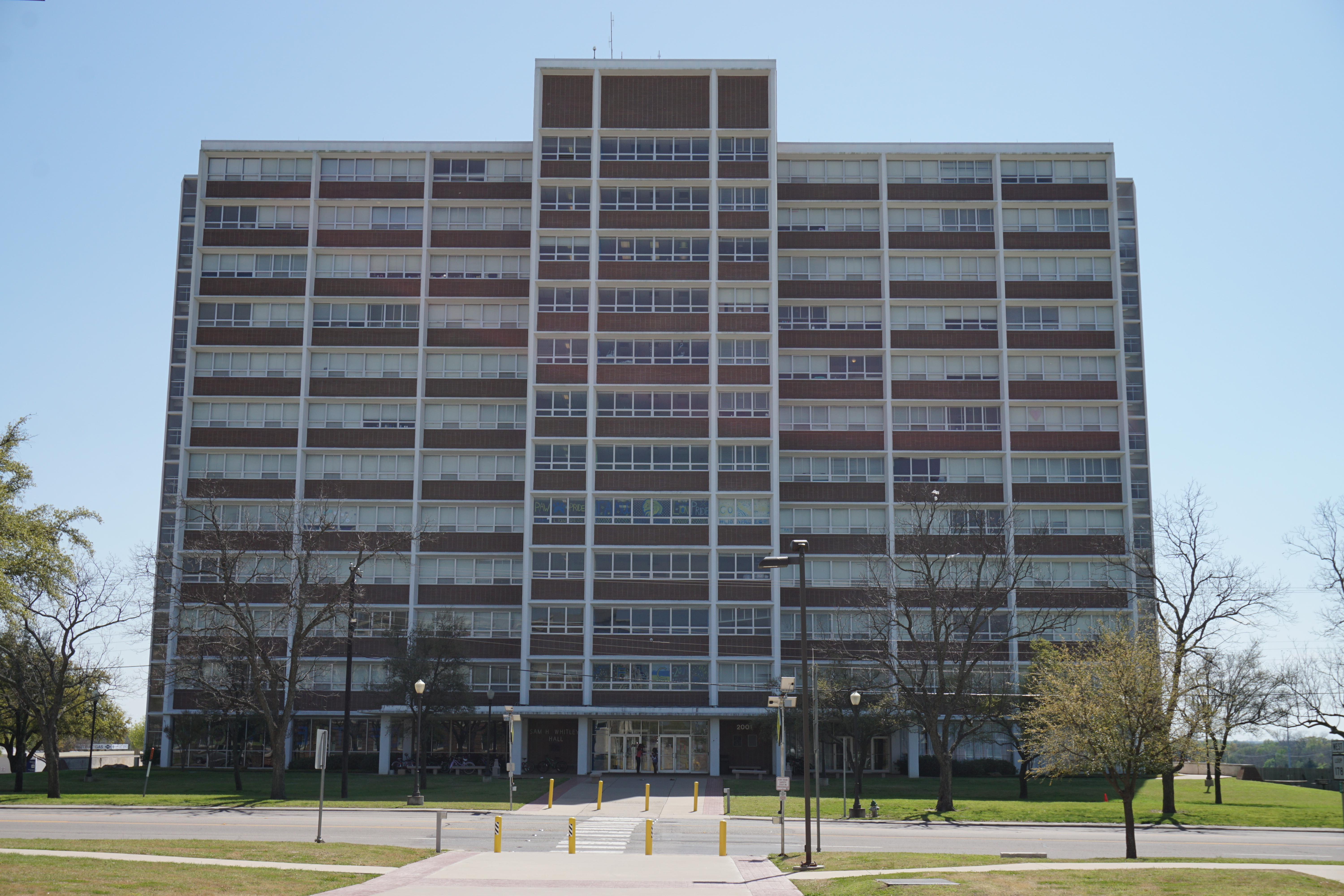 Whitley Residence Hall on the campus of Texas A&M University–Commerce in Commerce, Texas (United States).